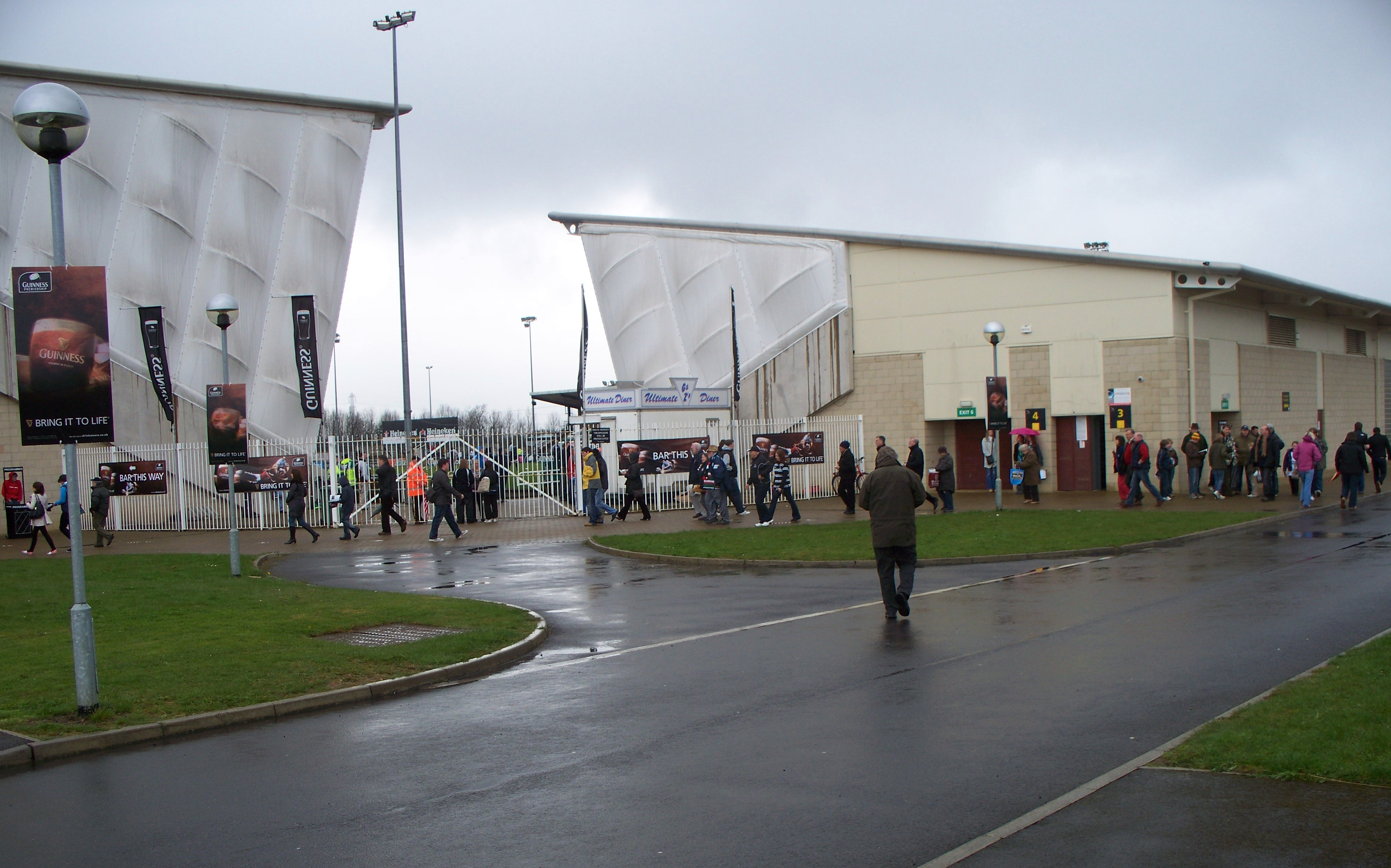 Home of Newcastle FalconsApproaching the Southwest corner of the stands at Kingston Park Stadium. It was a grey afternoon, and the result matched the gloomy weather.